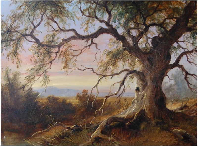 Old Gum Tree Riddells Creek+(Victoria) James Howe Carse